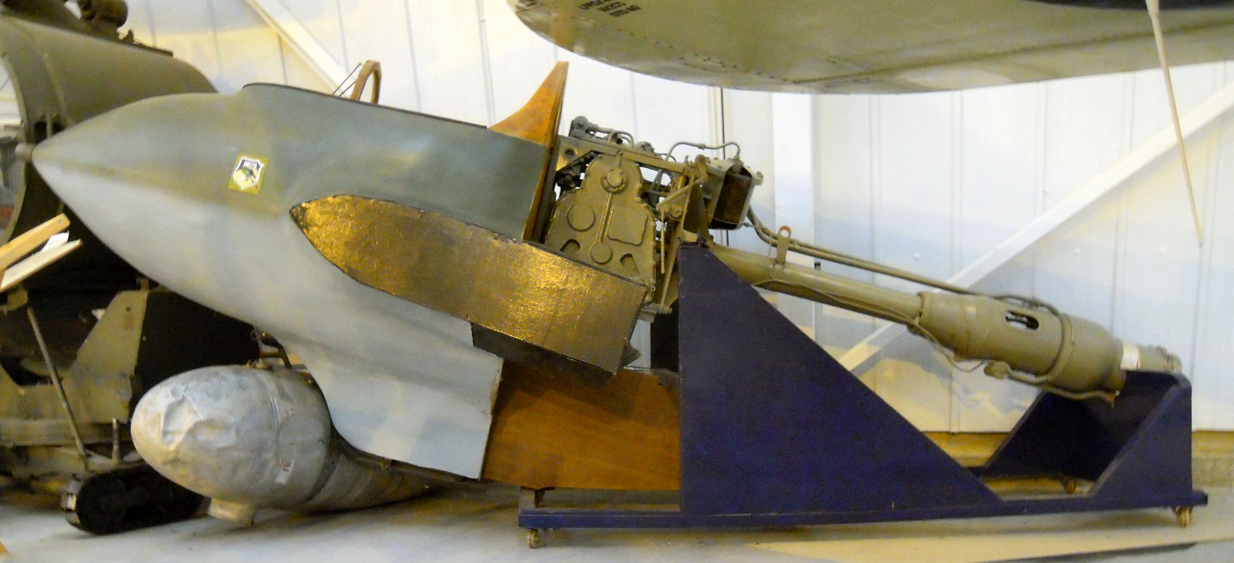 An early Walter HWK 109-509A-1 rocket motor with a dummy Messerschmitt Me 163 Komet cockpit at the Shuttleworth Collection near Biggleswade in Bedfordshire